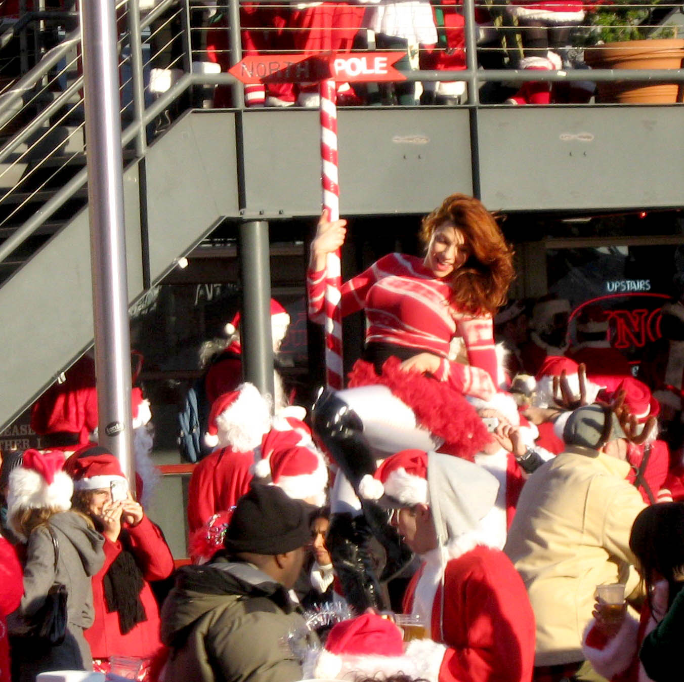 Looking northeast at pole dancer at the land end of Pier 17, South Street Seaport on a cloudy afternoon with many Santas.